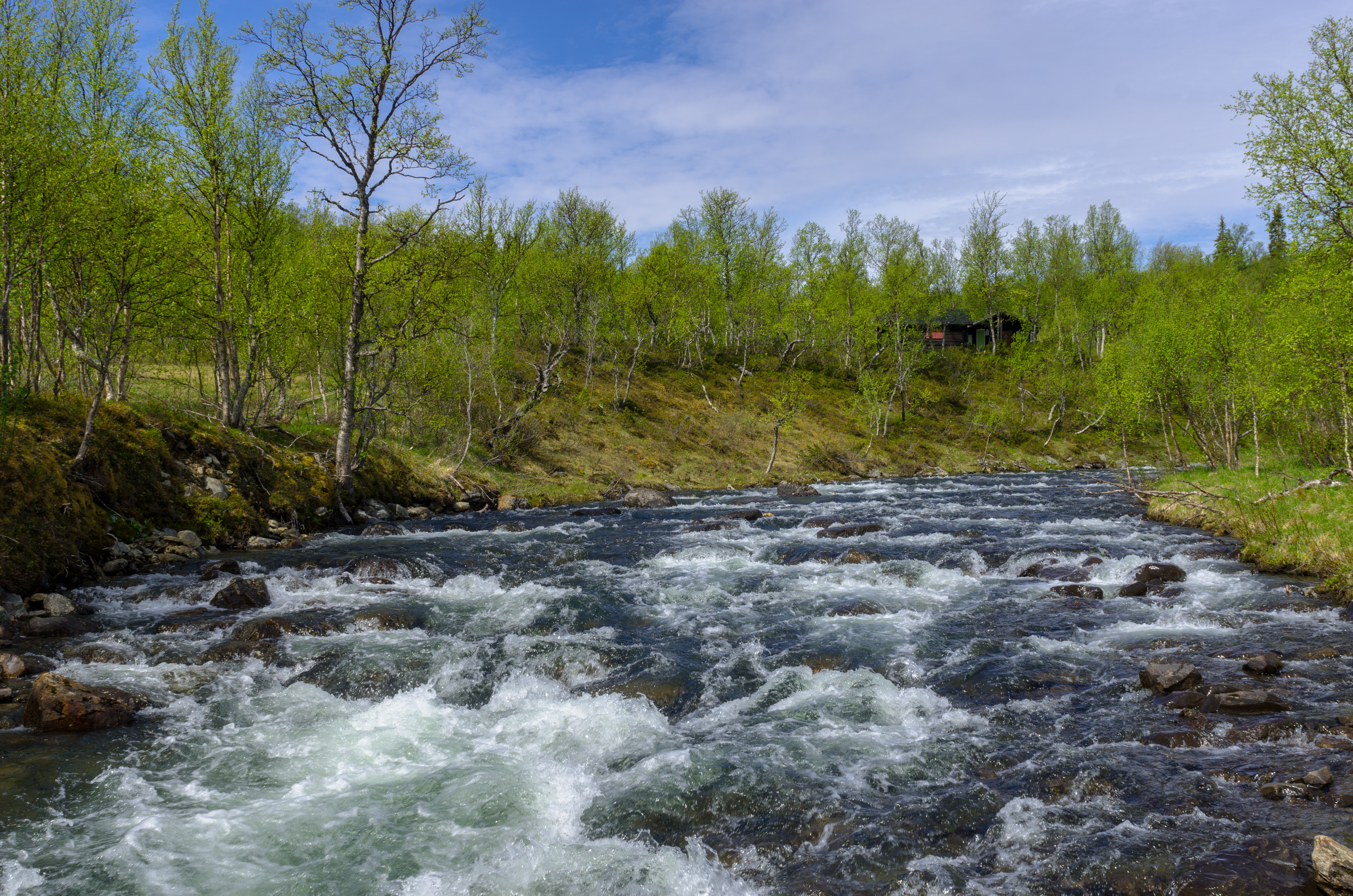 View upstream from the bridge over the river Kesuån, between Kläppvallen (left) and Bäckevallen (right).